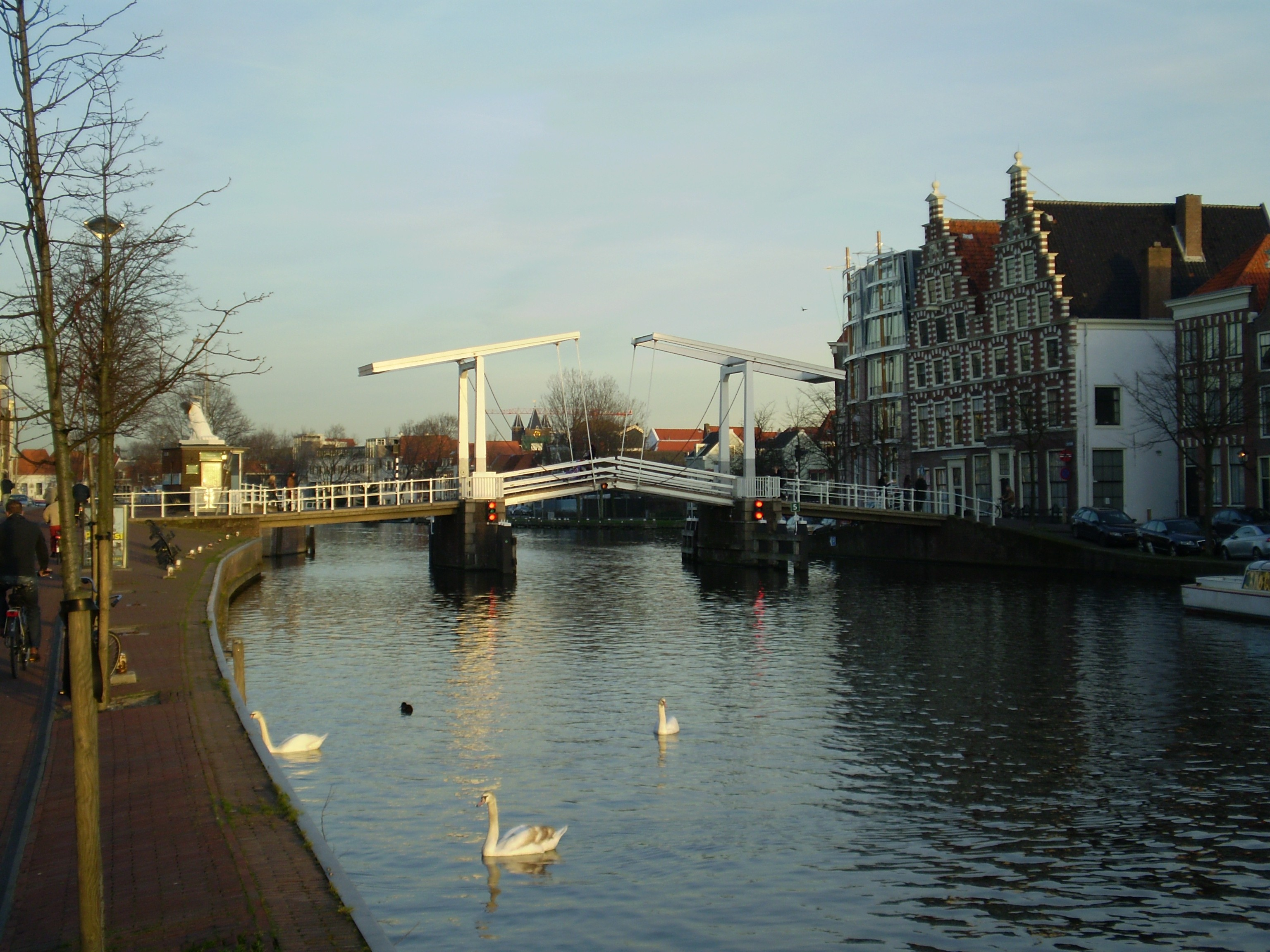 Gravestenebrug in Haarlem (Bascule bridge)